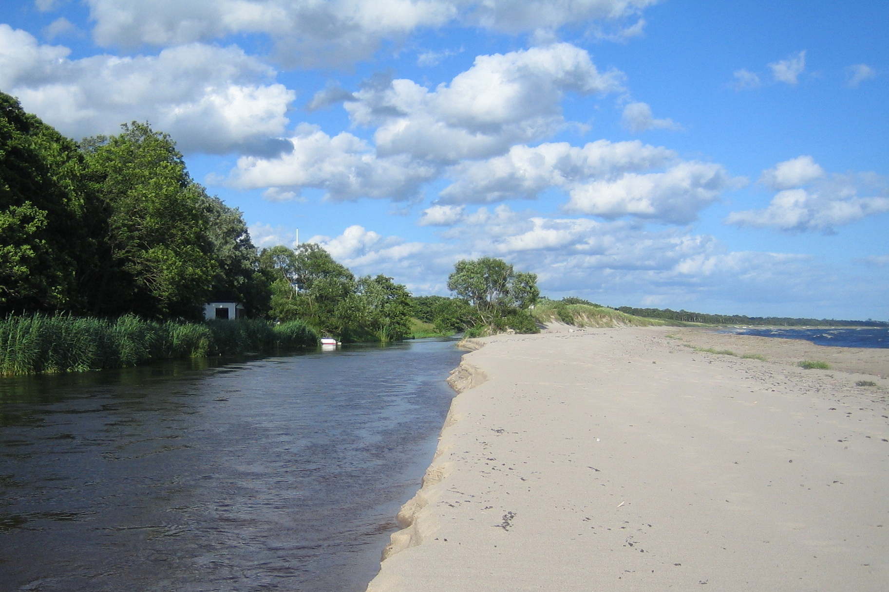 The outfall of Nybroån near Nybrostrand in Ystad Municipality, Sweden